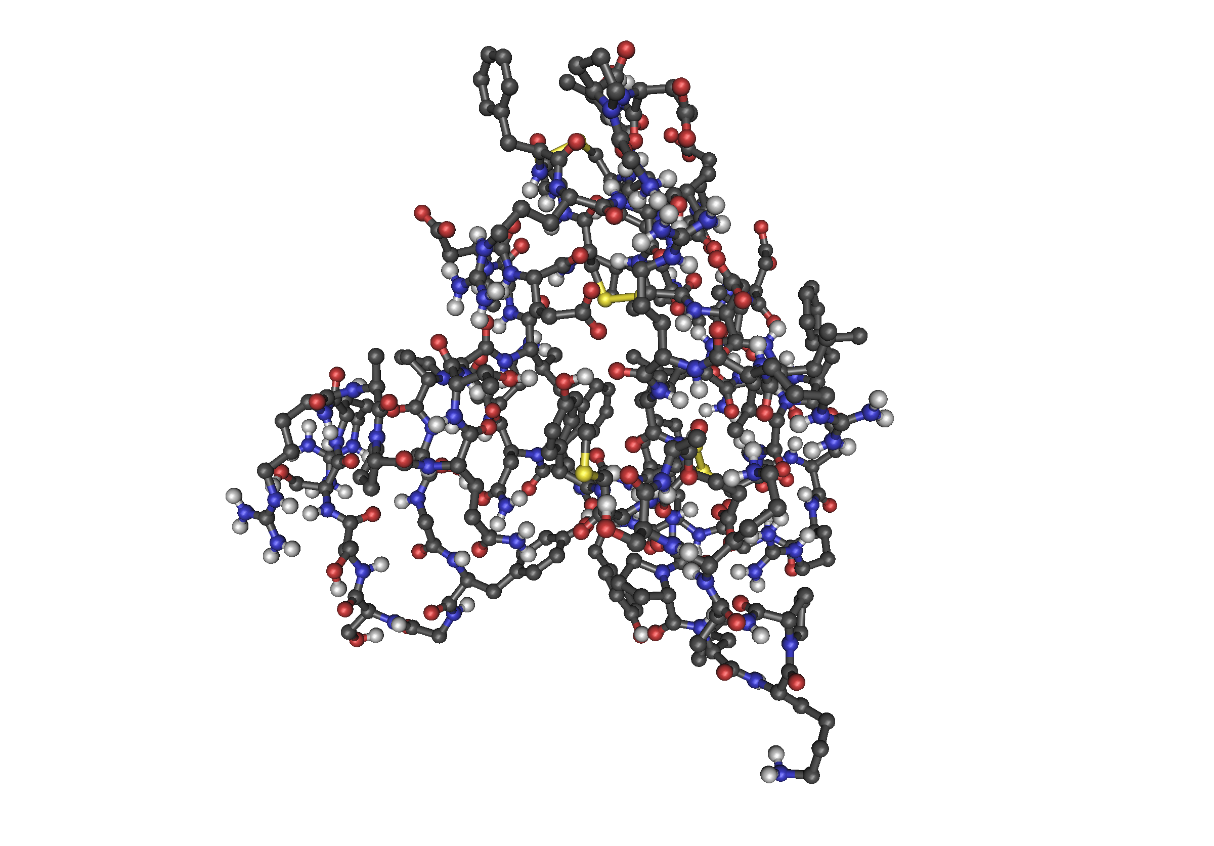 3GF1_Insulin-Like_Growth_Factor_Nmr